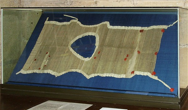 Cilice (hair shirt) of St. Louis in the church of St. Aspais of Melun